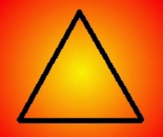 Astrological symbol of fire signs. Own work. An SVG version of this file is available as File:Fire signs color.svg.